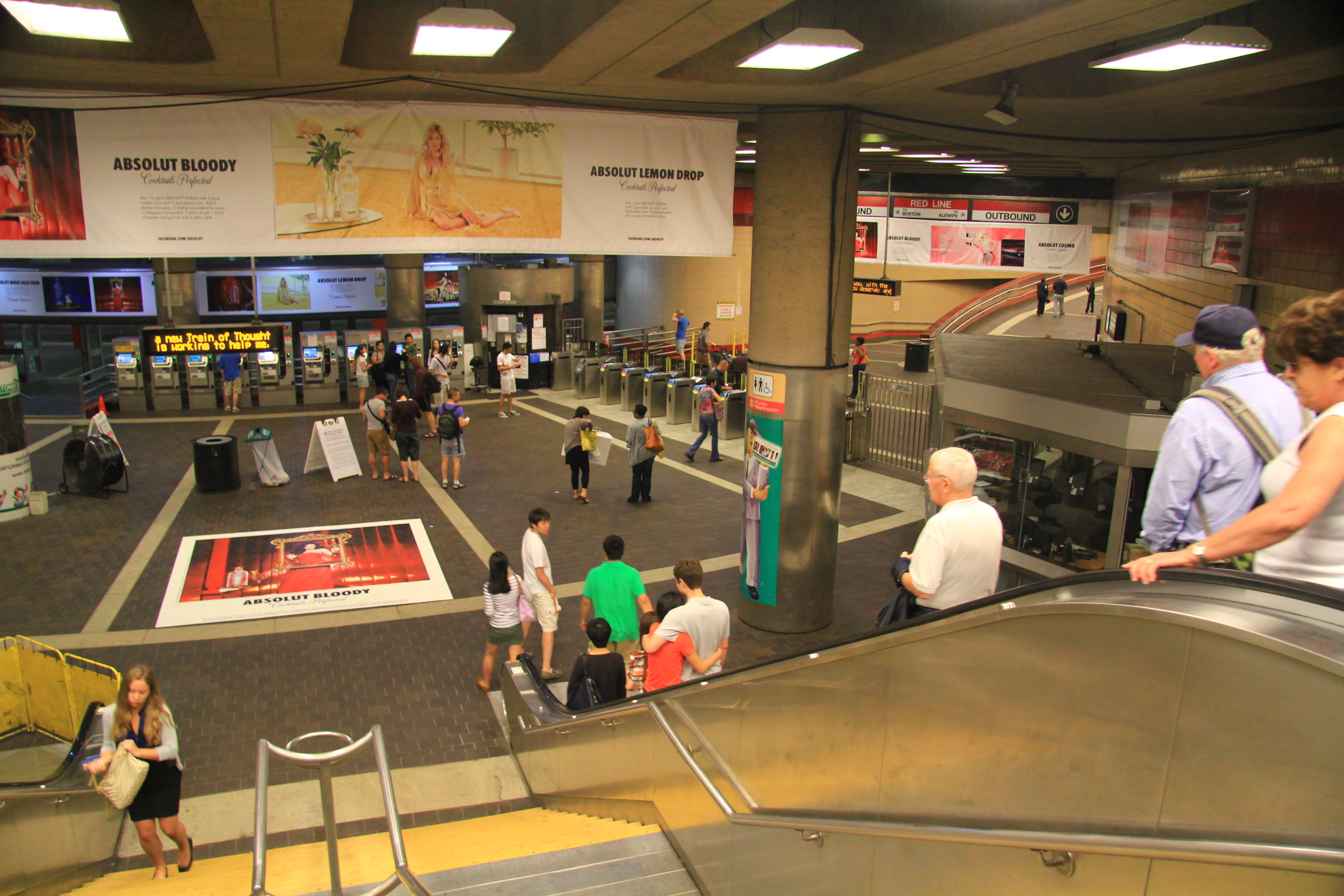 Interior of Harvard station viewed from the main staircase